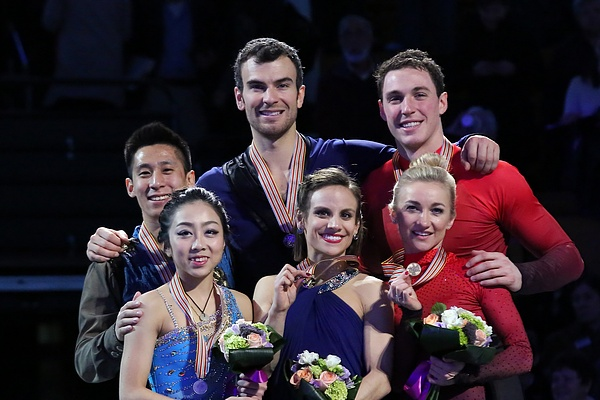 The Pair Skatimg podium at the 2016 World Championships. From left: Sui Wenjing / Han Cong (2nd), Meagan Duhamel / Guilaume Cizeron (1st), Aliona Savchenko / Bruno Massot (3rd).